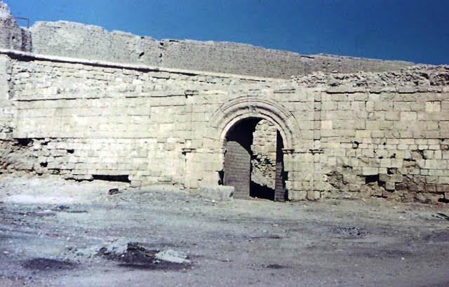 Fortress in al-Qusair (1968)